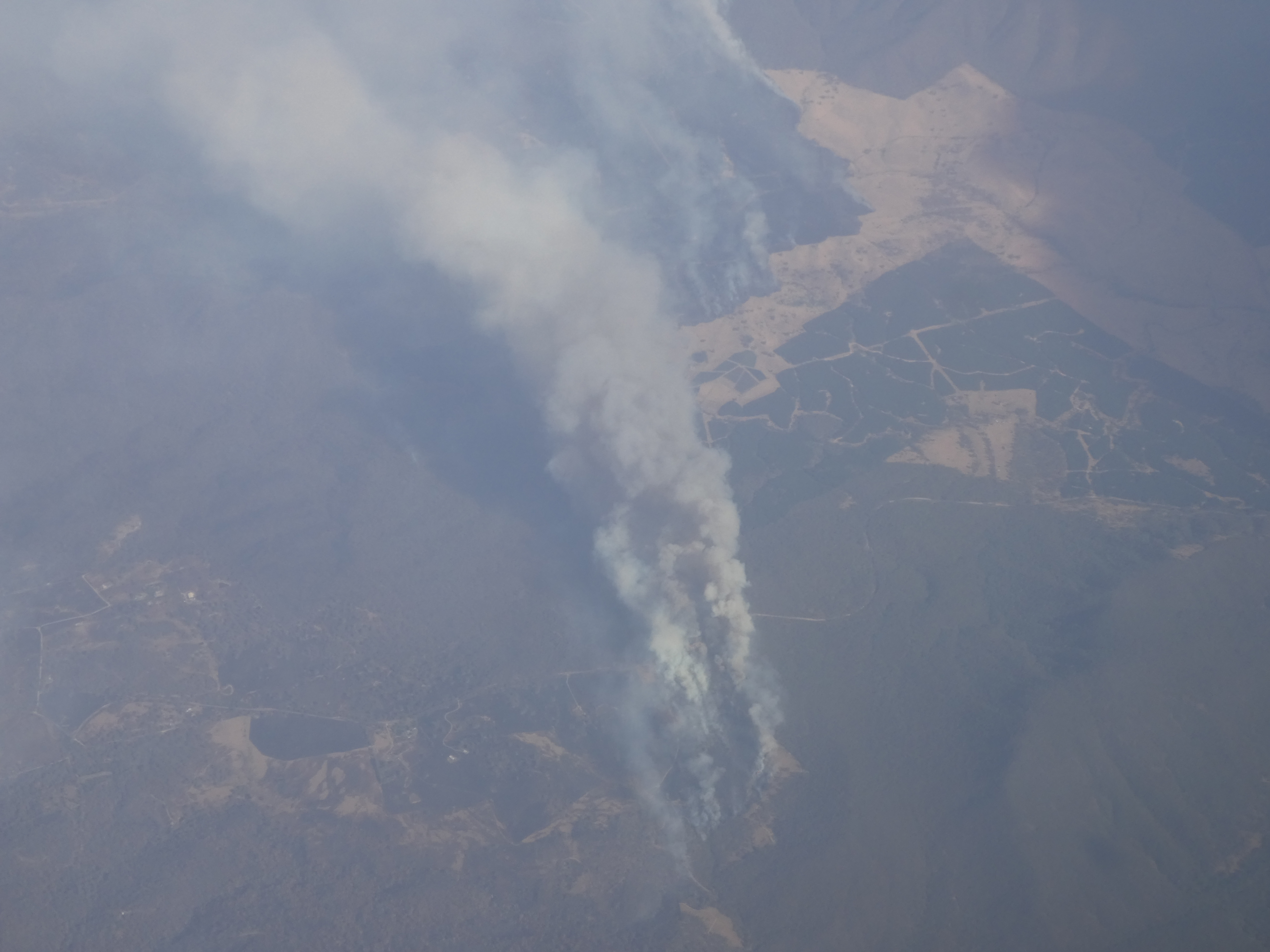 A photograph from a commercial flight showing a pyrocumulonimbus cloud